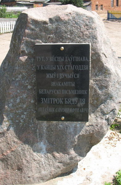 Monument in Daŭhinaŭ, Biełaruś